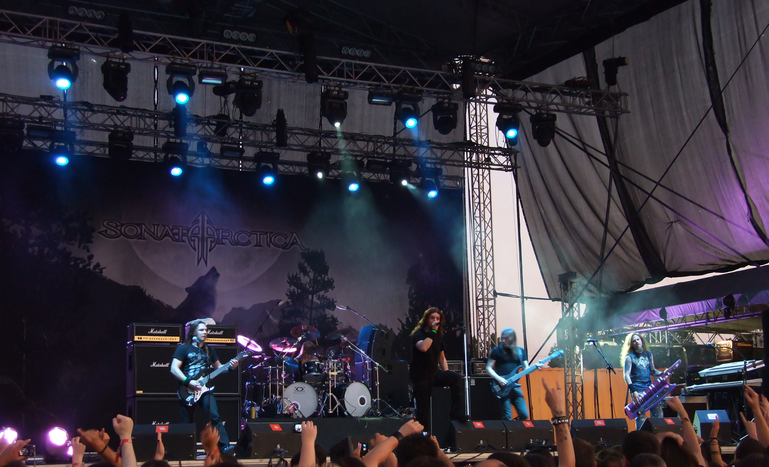 The Finnish rock band Sonata Arctica at Kavarna Rock Fest 2011, Bulgaria.